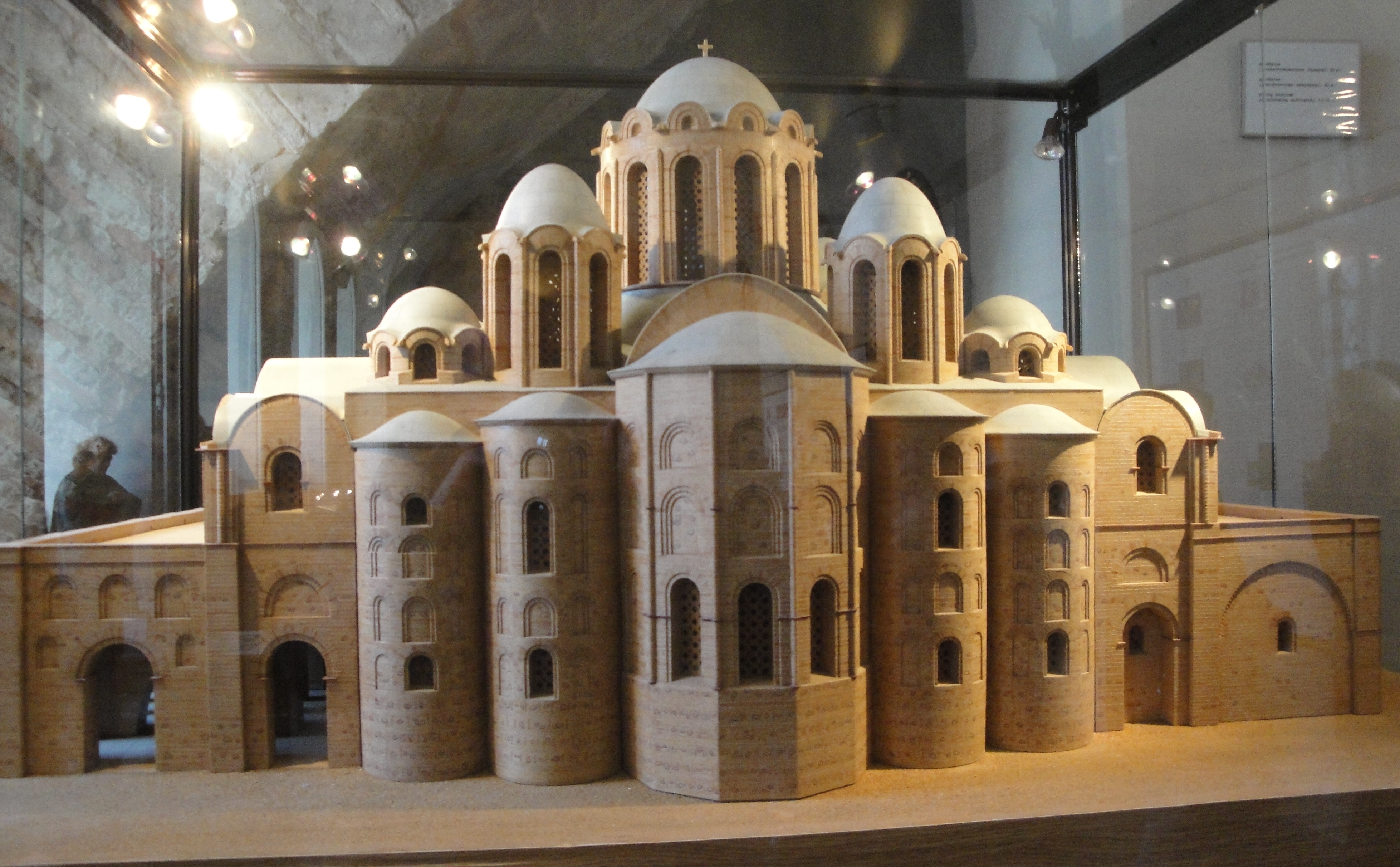 Model of the church of St. Sophia of Kiev, as it was build in byzantine style at the begining of the 11th century.